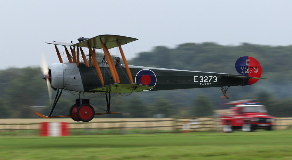 Avro 504K from 1918 painted as E3273